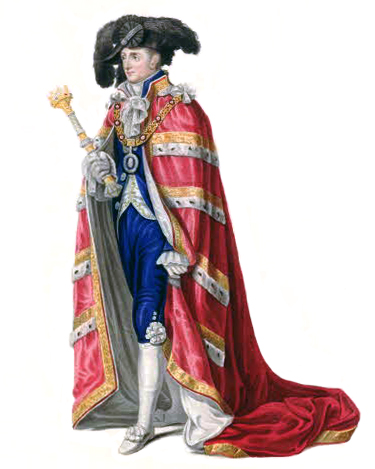 Lord Mayor of London in his coronation robes.